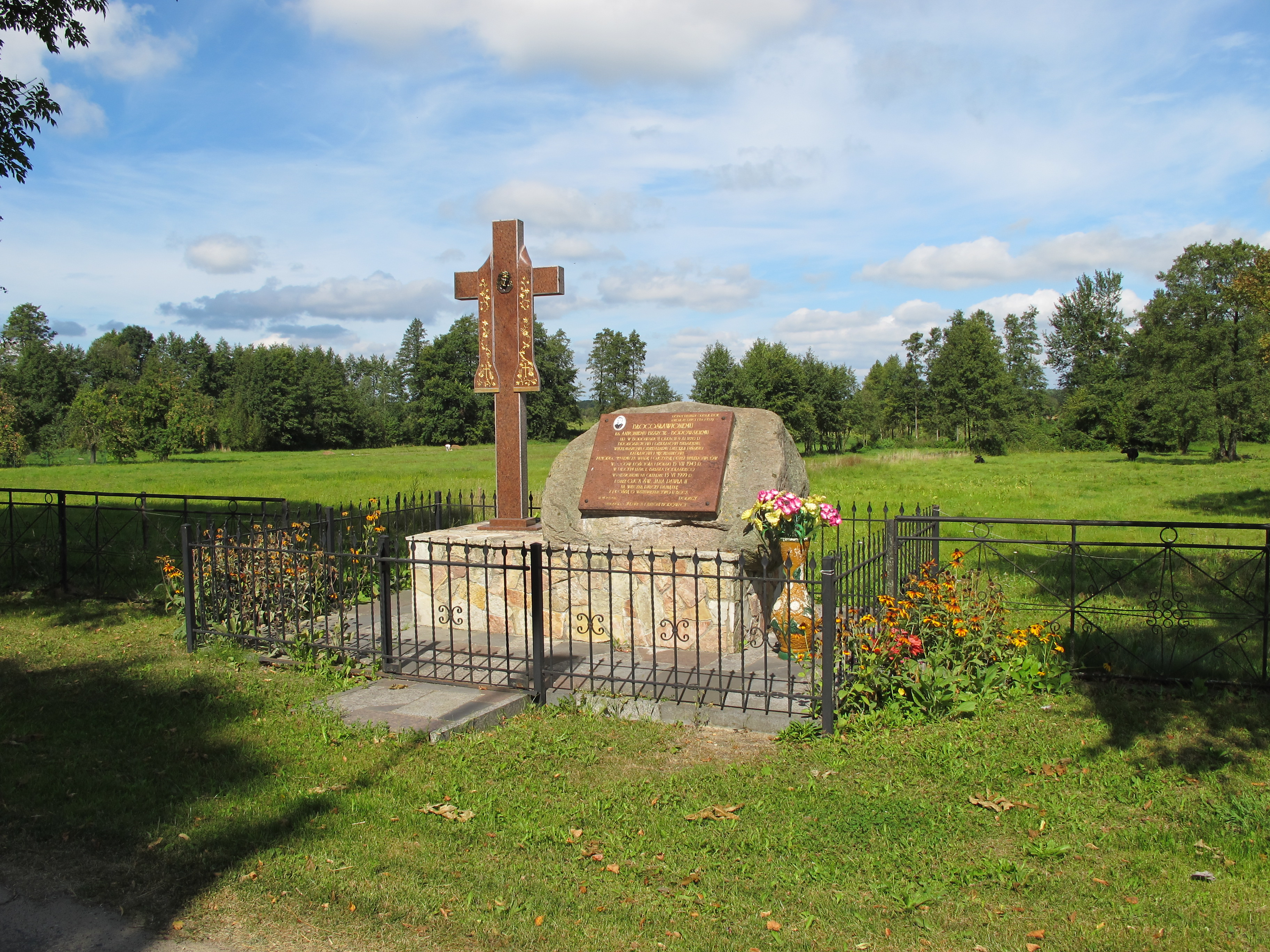 Borowskie Olki, gmina Turośń Kościelna, podlaskie, Poland